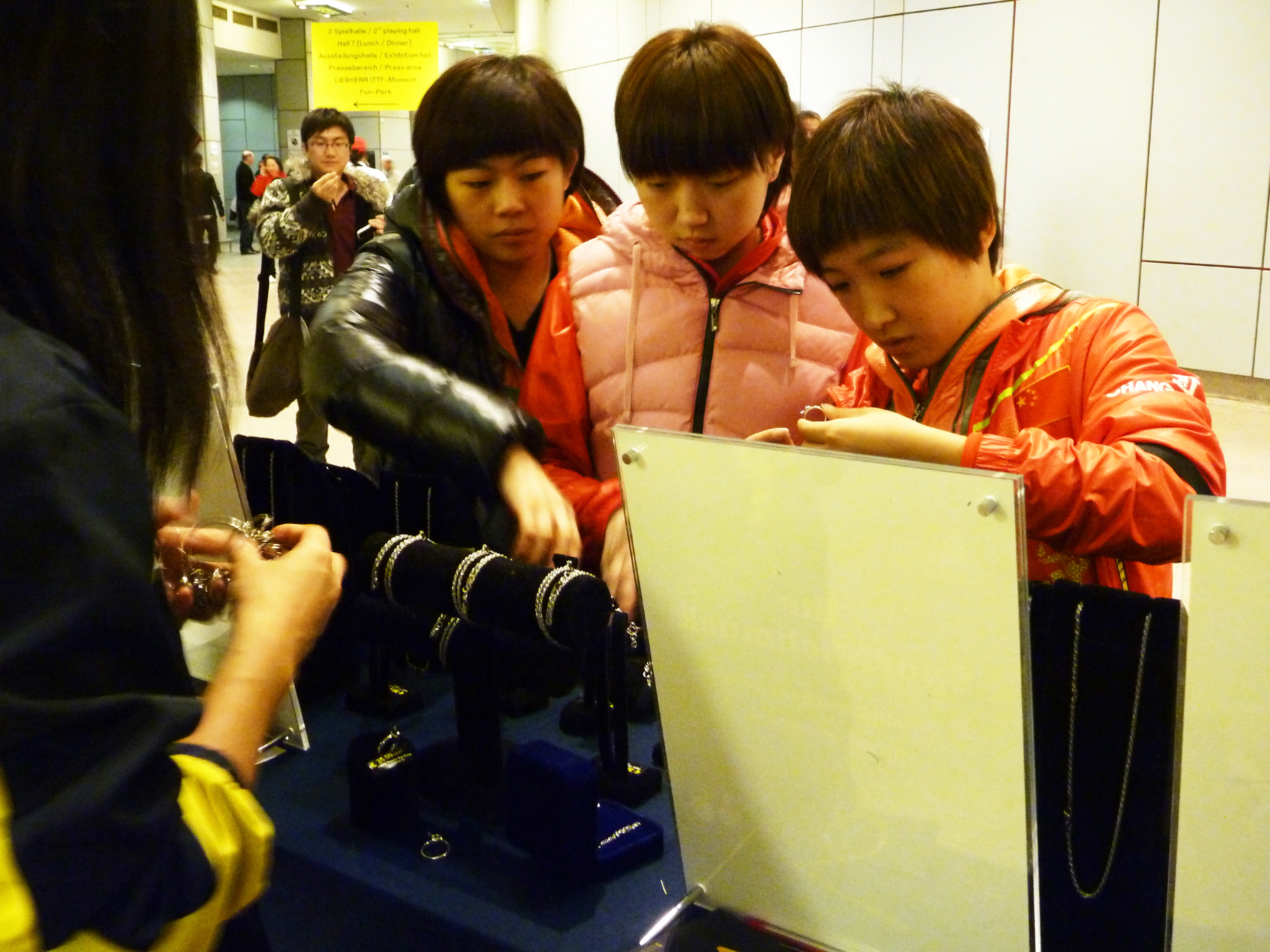 China's Cao Zhen, Fan Ying and Liu Shi Wen at the Vinqui stand.